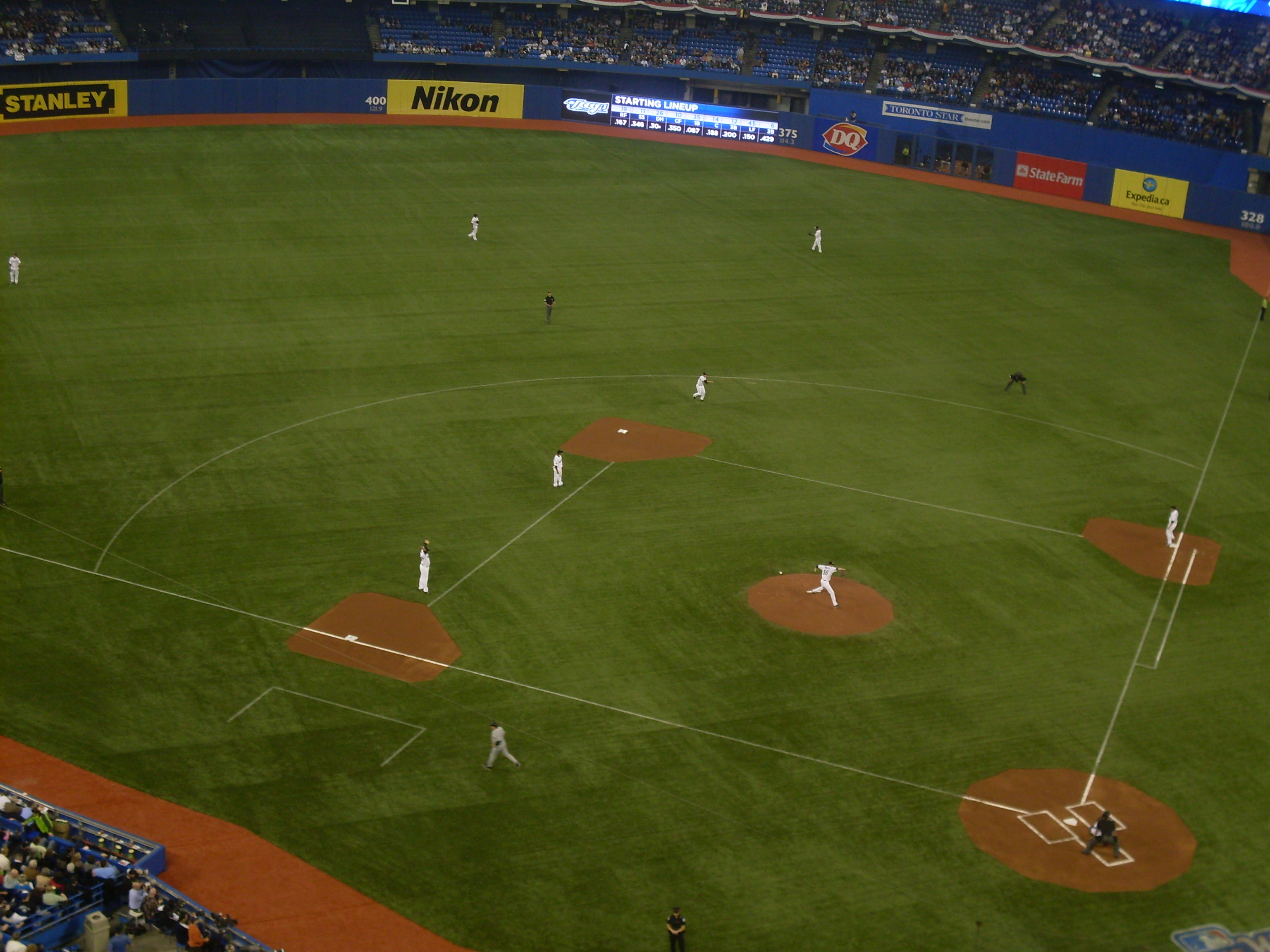 Toronto Blue Jays starters for their 2010 home opener.